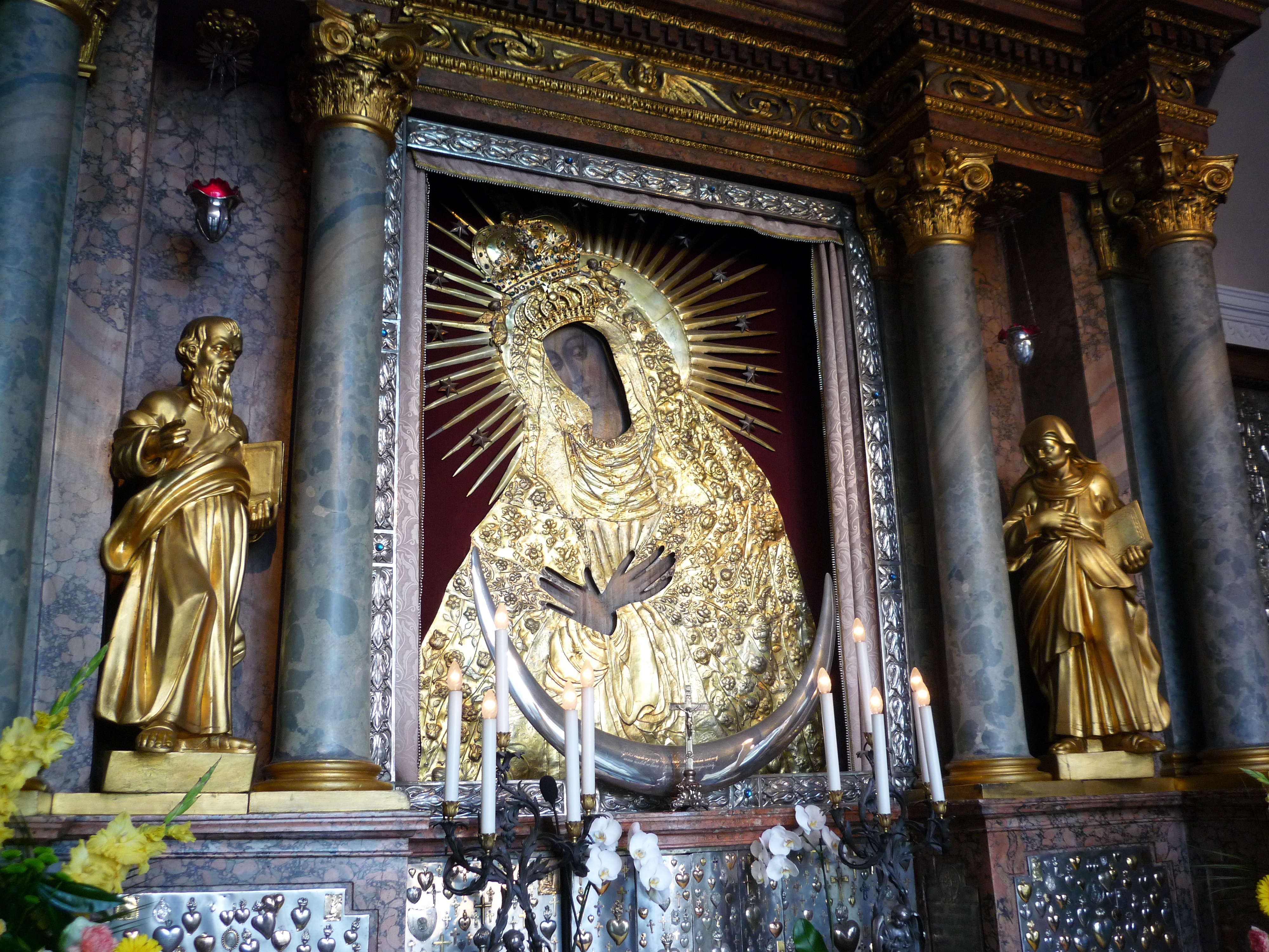 Our Lady of the Gate of Dawn, Vilnius